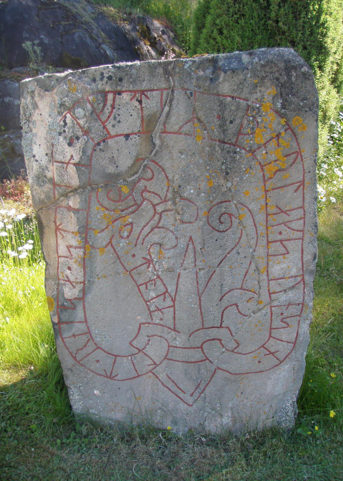 Runestone Ög 156 at Tingstads church